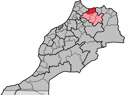 Location of the province Al Hoceïma within the region Taza-Al Hoceima-Taounate, Morocco. In total, Morocco has 16 regions, subdivided into 62 provinces and 13 prefectures.